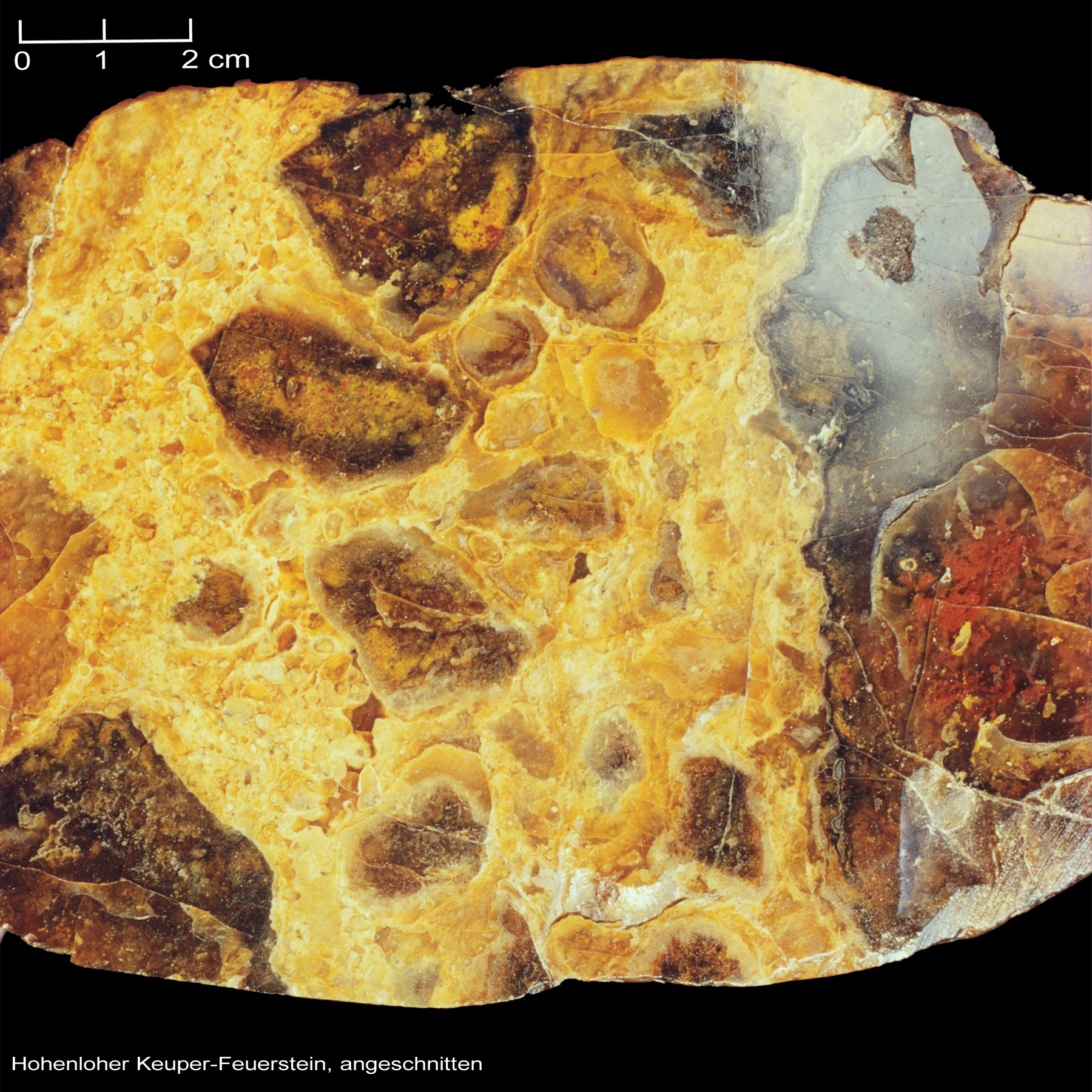 Flintstone from Hohenlohe (high plain in northern Baden-Württemberg, Schwäbisch Hall (district)). The flint was cut, ground and polished, hence shining in brilliant colors, as flints originating from sandstone of Keuper strata in Hohenlohe often do. Flintstones are a very important trace of braided danubian rivers of pleistocene age, that were captured by the rhenish rivers Kocher and Jagst.